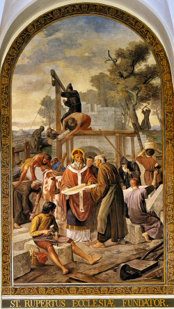 Wall mural of Saint Rupert as Ecclesiae Fundator, Founder of the Church